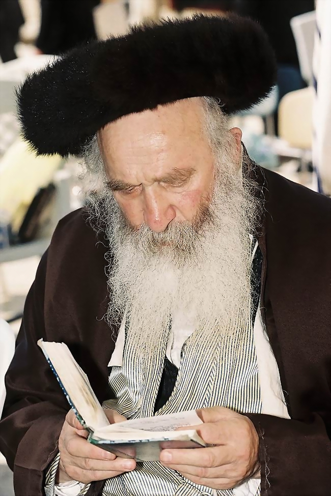 AN OLD HASSID RECITING PSALMS